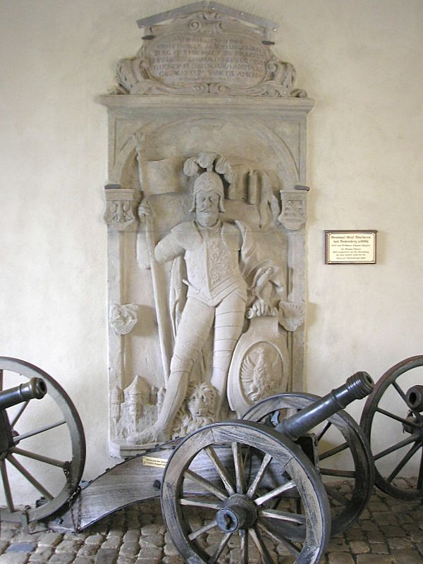 Altenburg castle (Bamberg, Upper Franconia, Germany). Memorial of Adalbert von Babenberg at the gateway (ca. 1724)